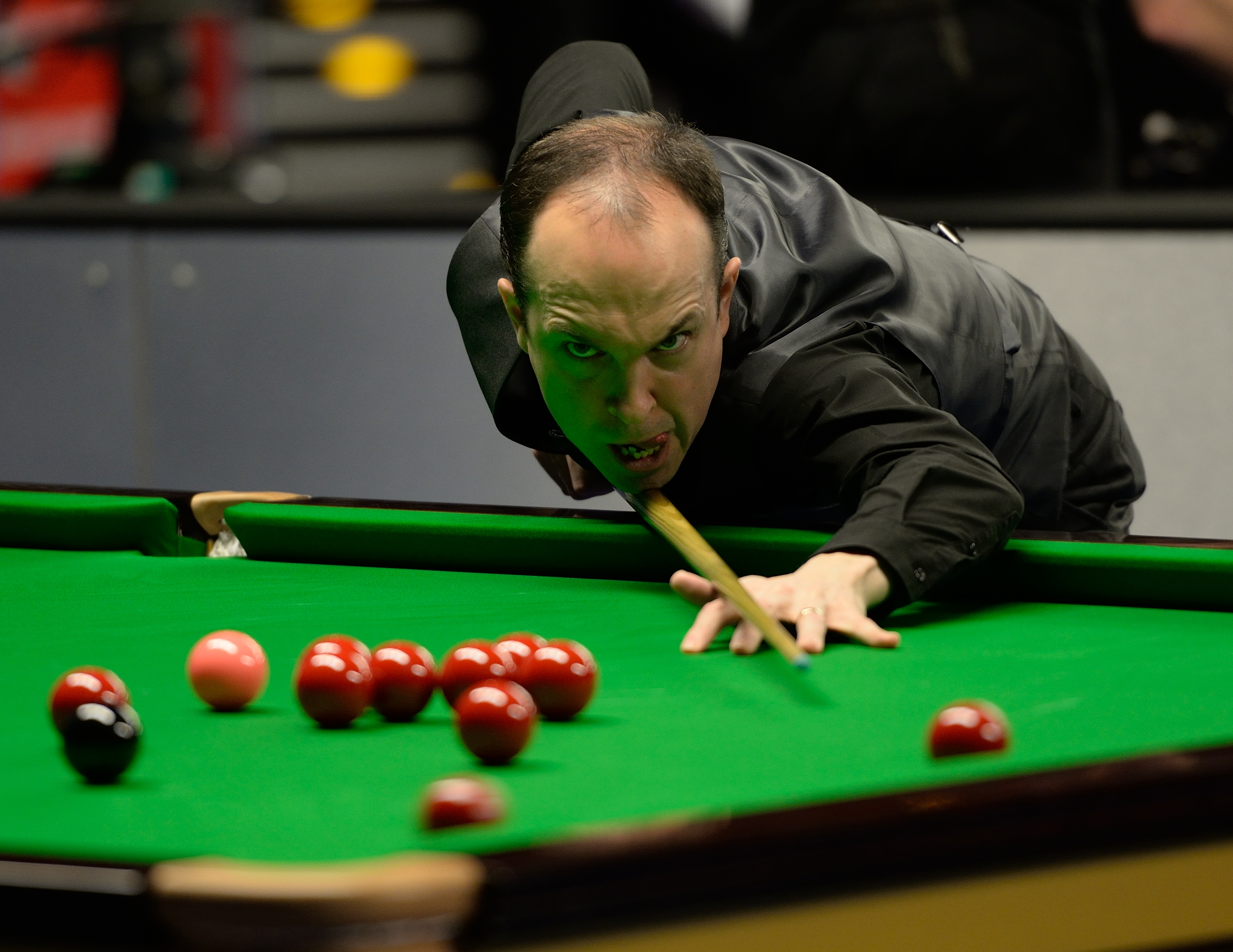 Picture taken in Berlin during the Snooker German Masters in 2015. Fergal O’Brien.